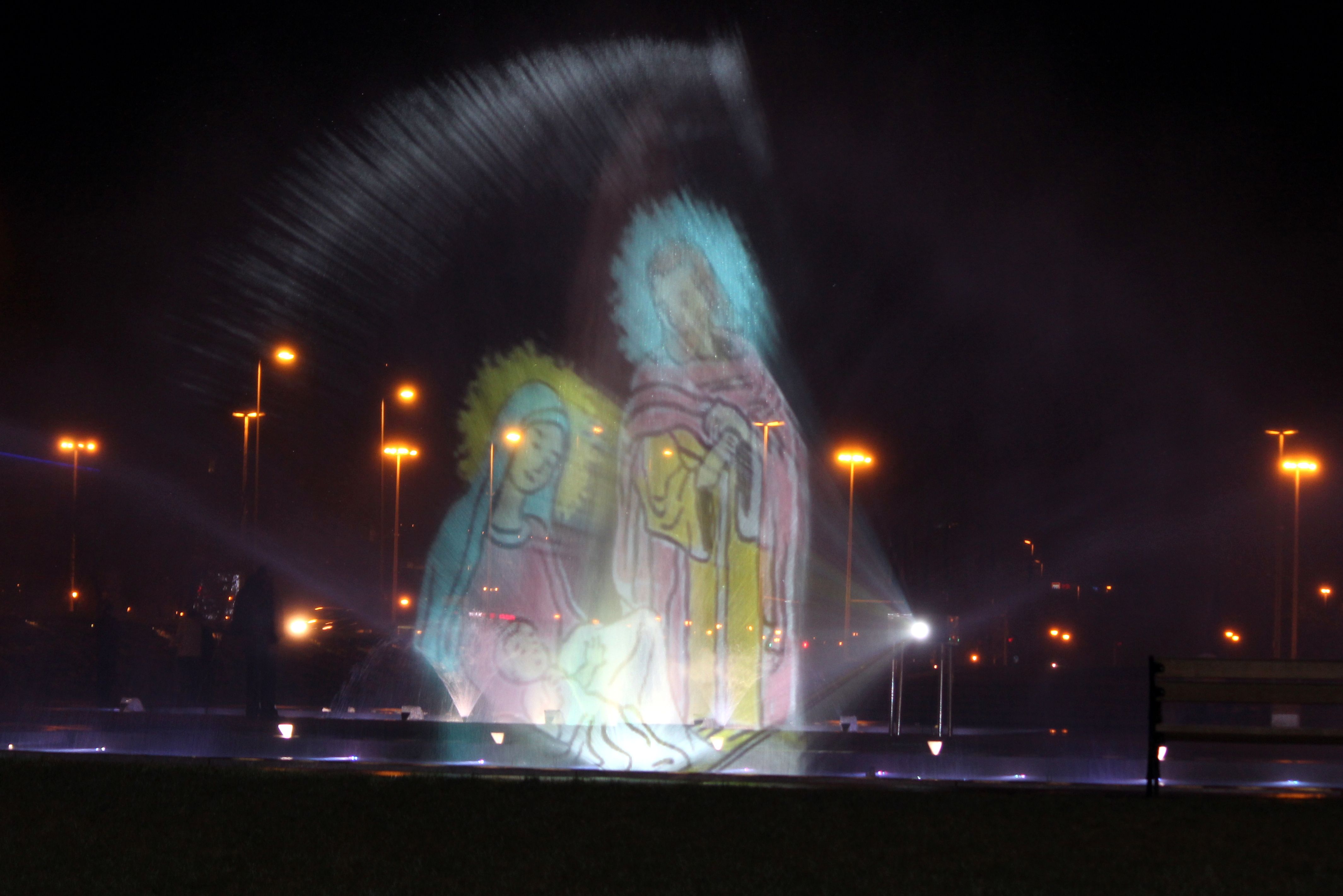 Christmas card through the fountain